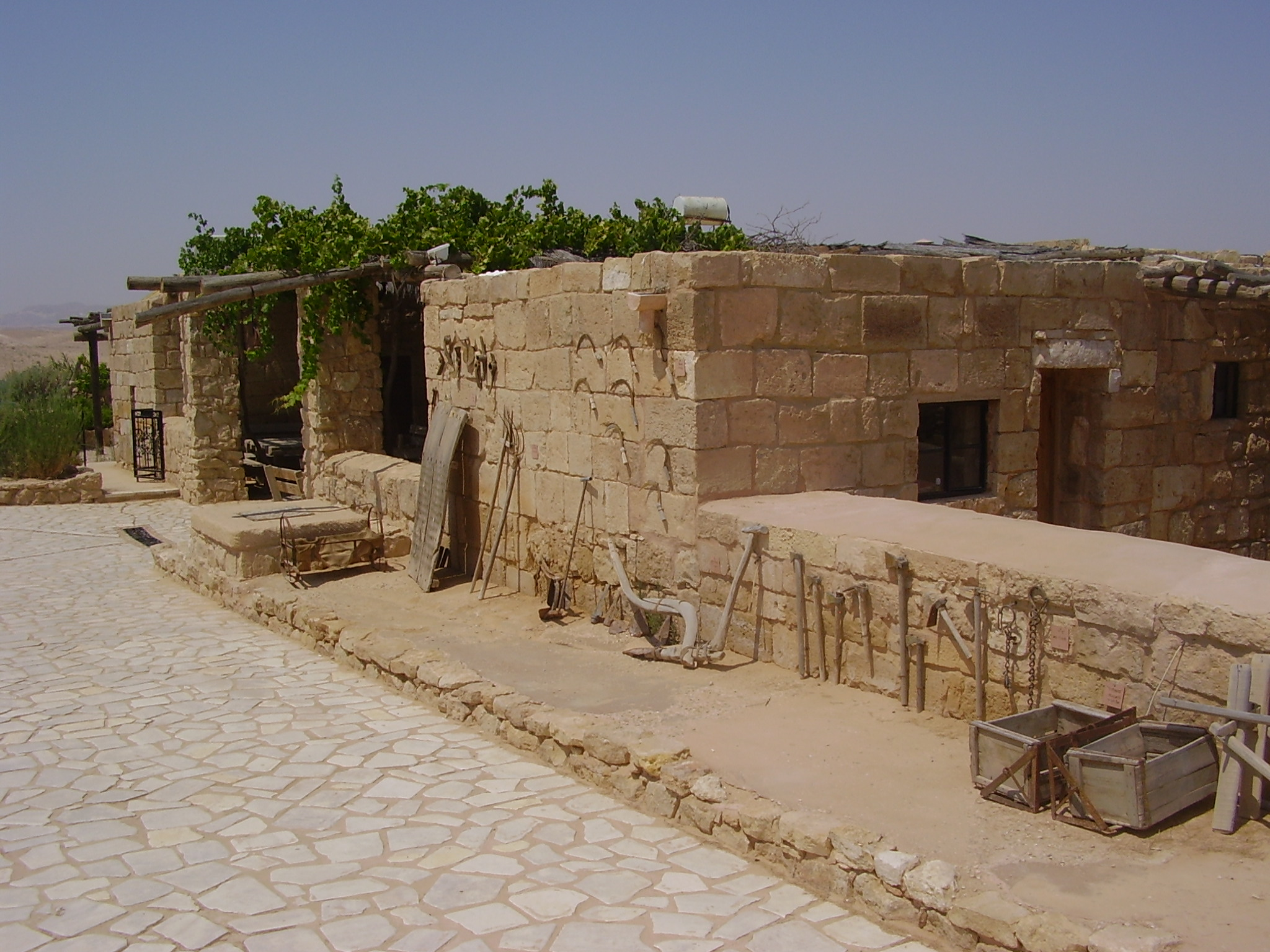 Colt\'s house in Shivta